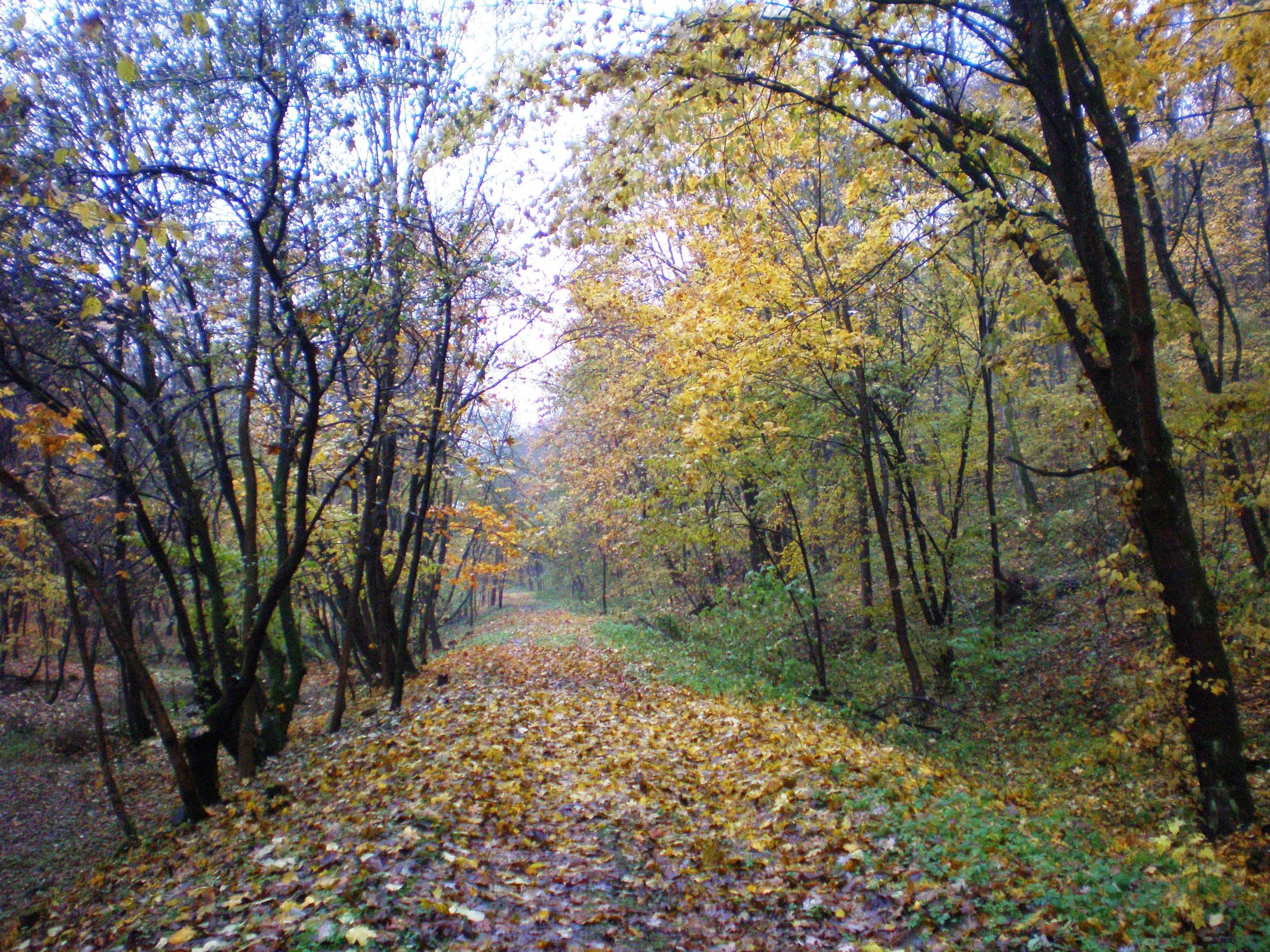 Jiesia landscape reserve in autumn. Former narrow gauge railway embankment, Panemunė, Kaunas